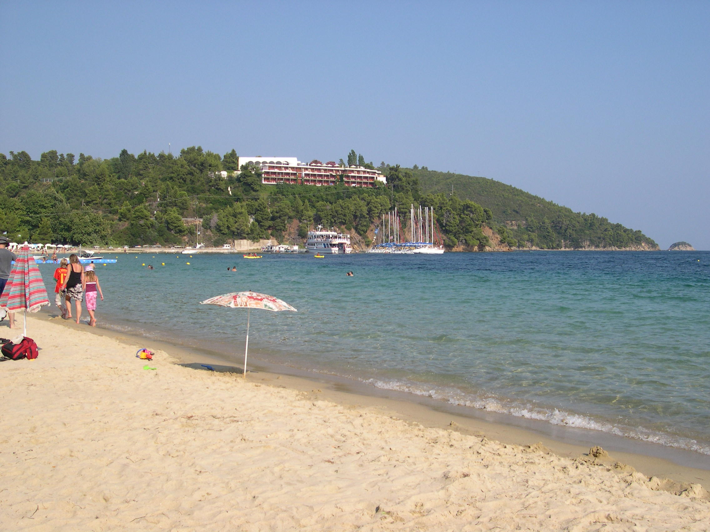 Koukounaries Beach, Skiathos, Greece.